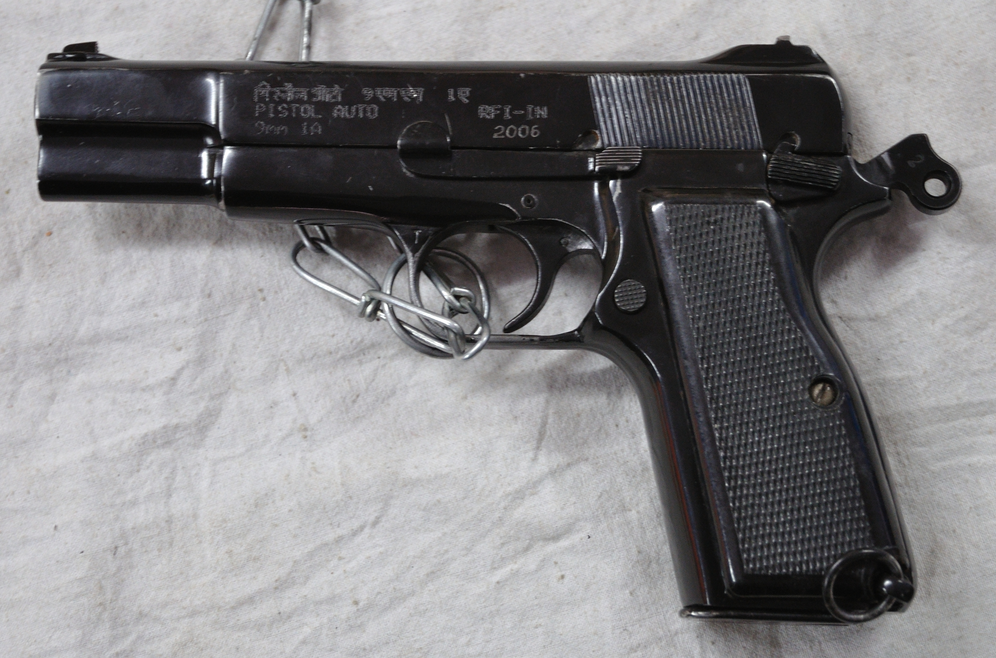 Photographed at Kolkata.